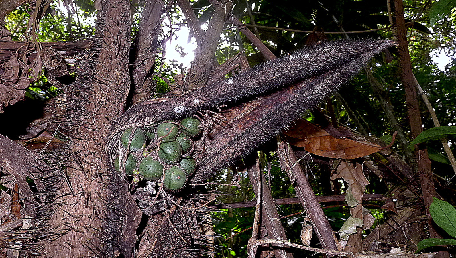 Bactris humilis (Wallace) Burret